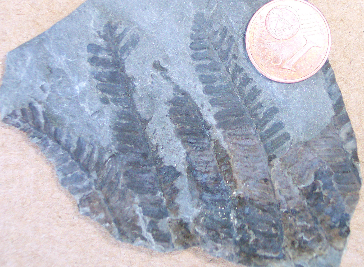 Part of Pecopteris (form genus of fossil fronds of tree ferns) in grey siltstone of the earliest Permian (Lower Rotliegend) Manebach Formation. Manebach near Ilmenau, Thuringian Forest, Germany.